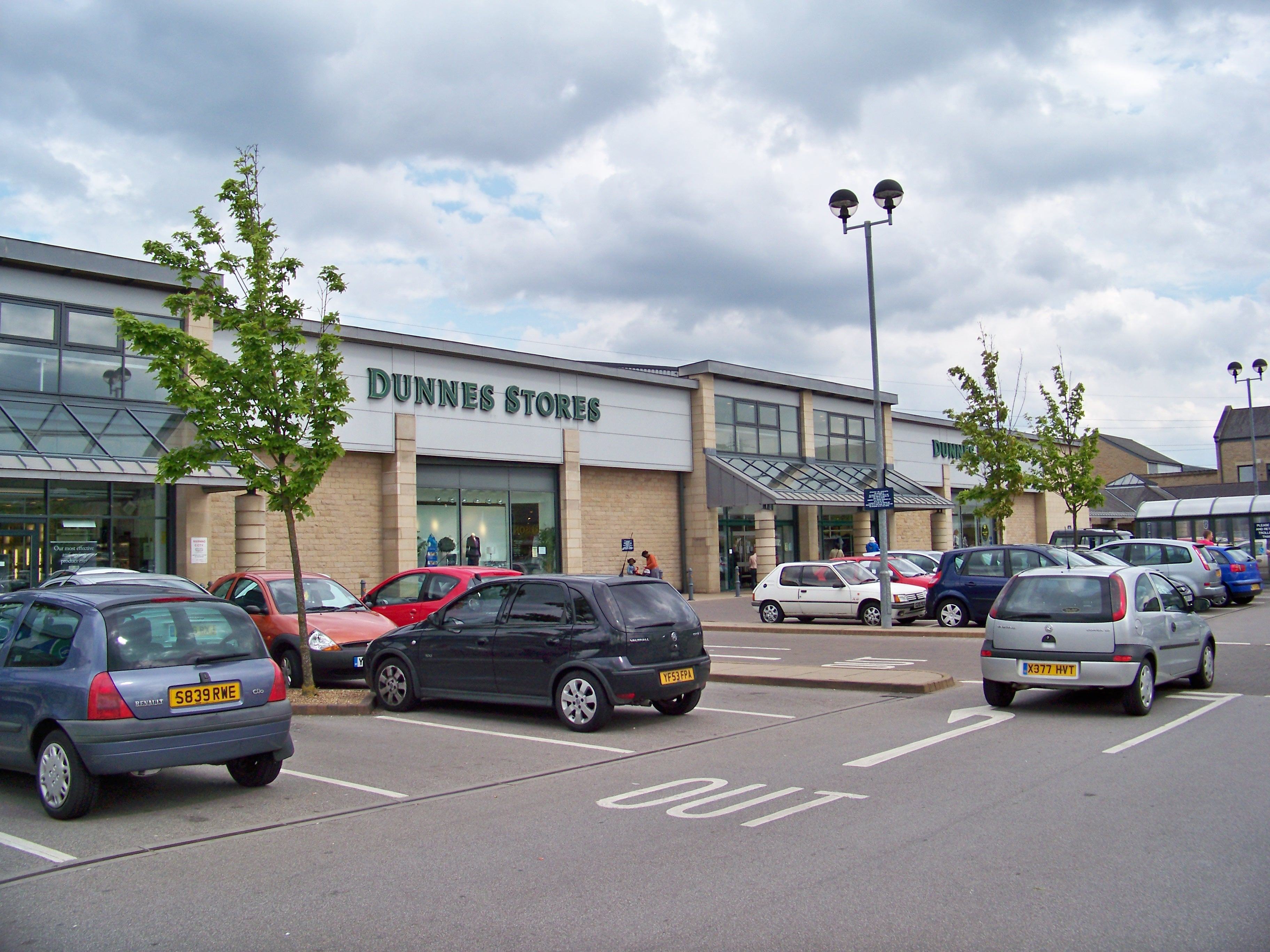 Dunnes Stores in Kirkstall, Leeds, West Yorkshire, UK. Taken around midday on the 24th May 2009.